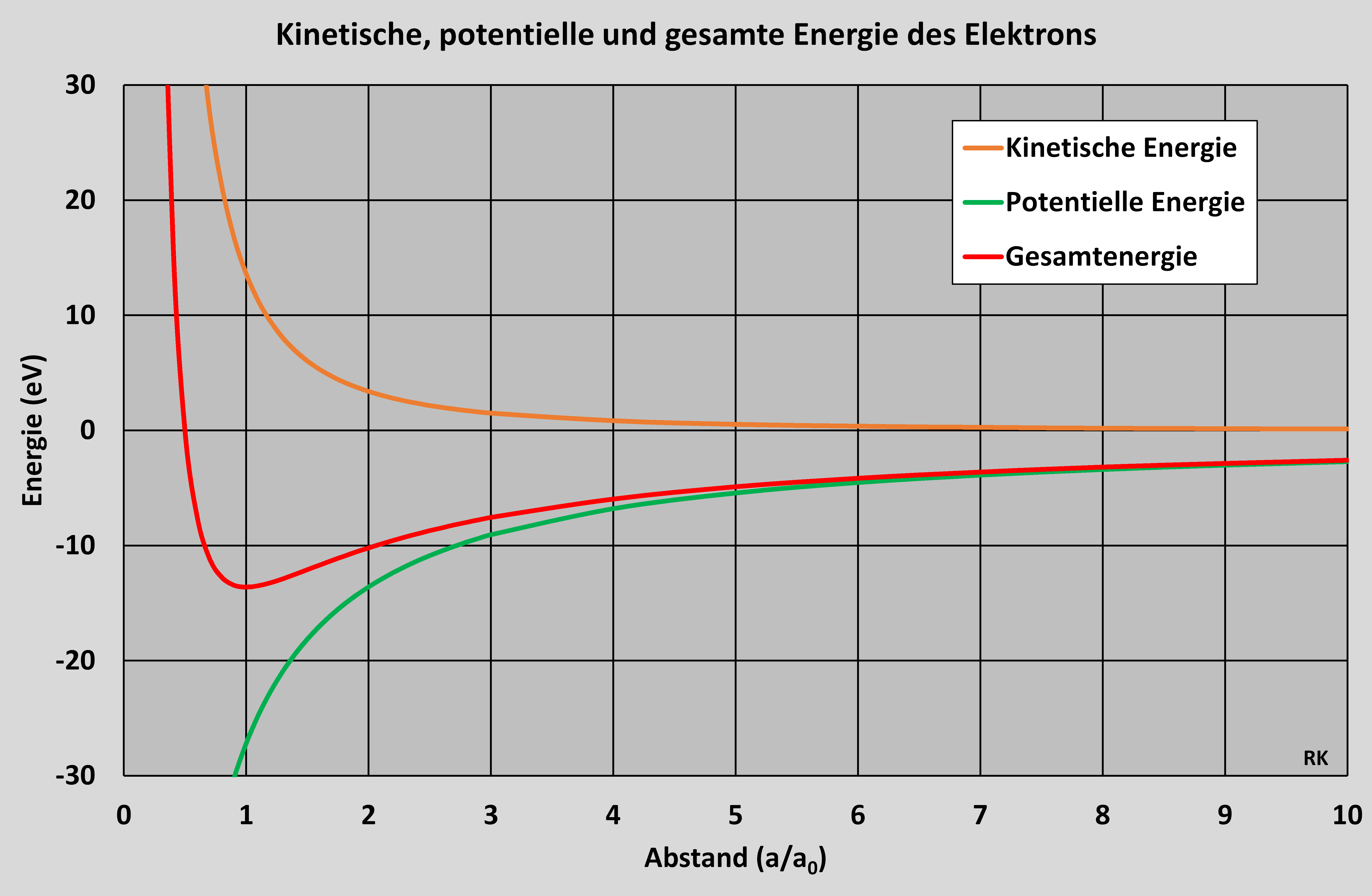 Kinetic, potential, and total energy of the electron as a function of the distance (in Bohr radii) of the electron from the nucleus for a hydrogen atom in its ground state